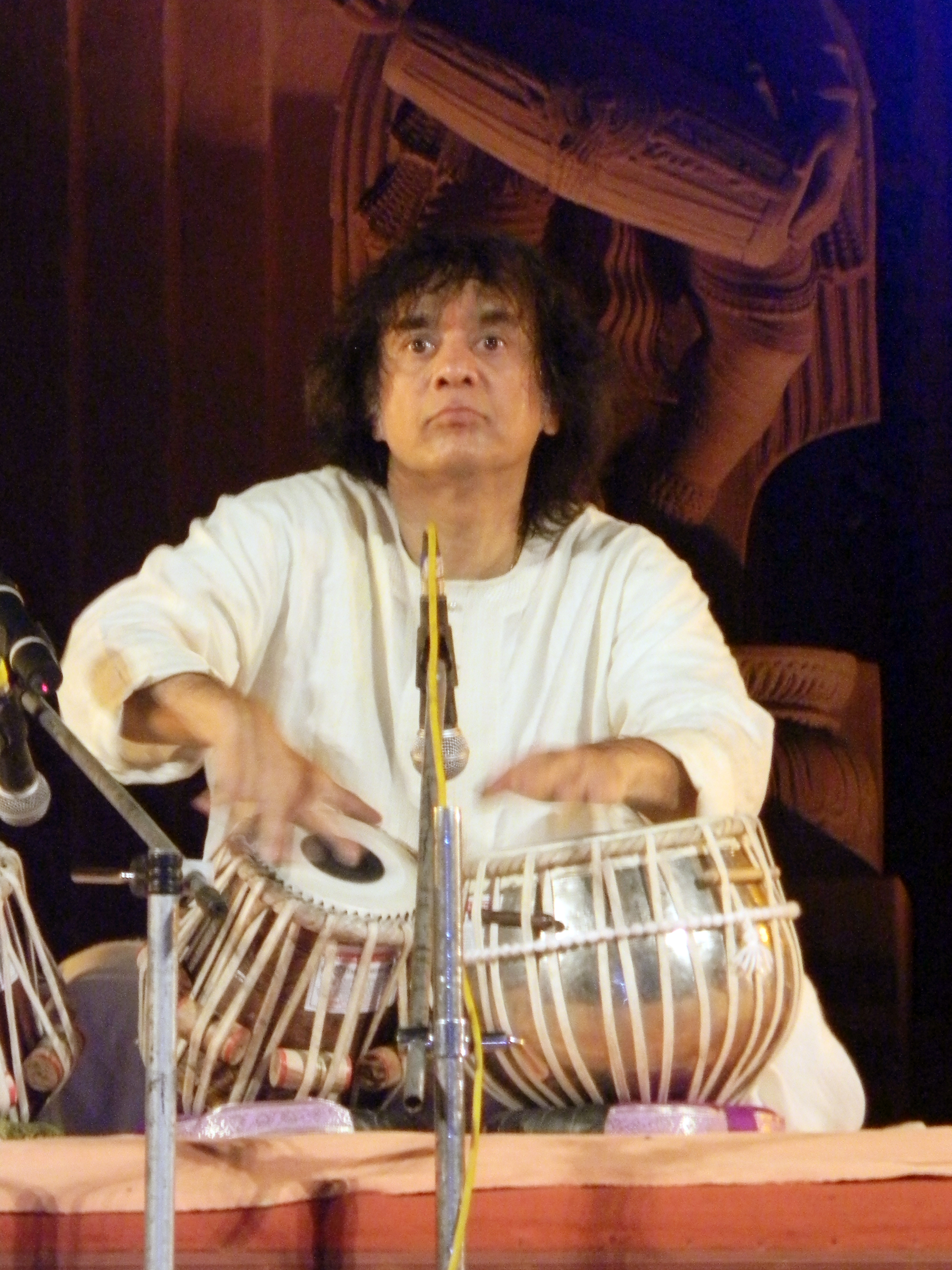 ଓଡ଼ିଆ: Ustad Zakir Hussain 2 This media file is uploaded with Odia loves Wikipedia